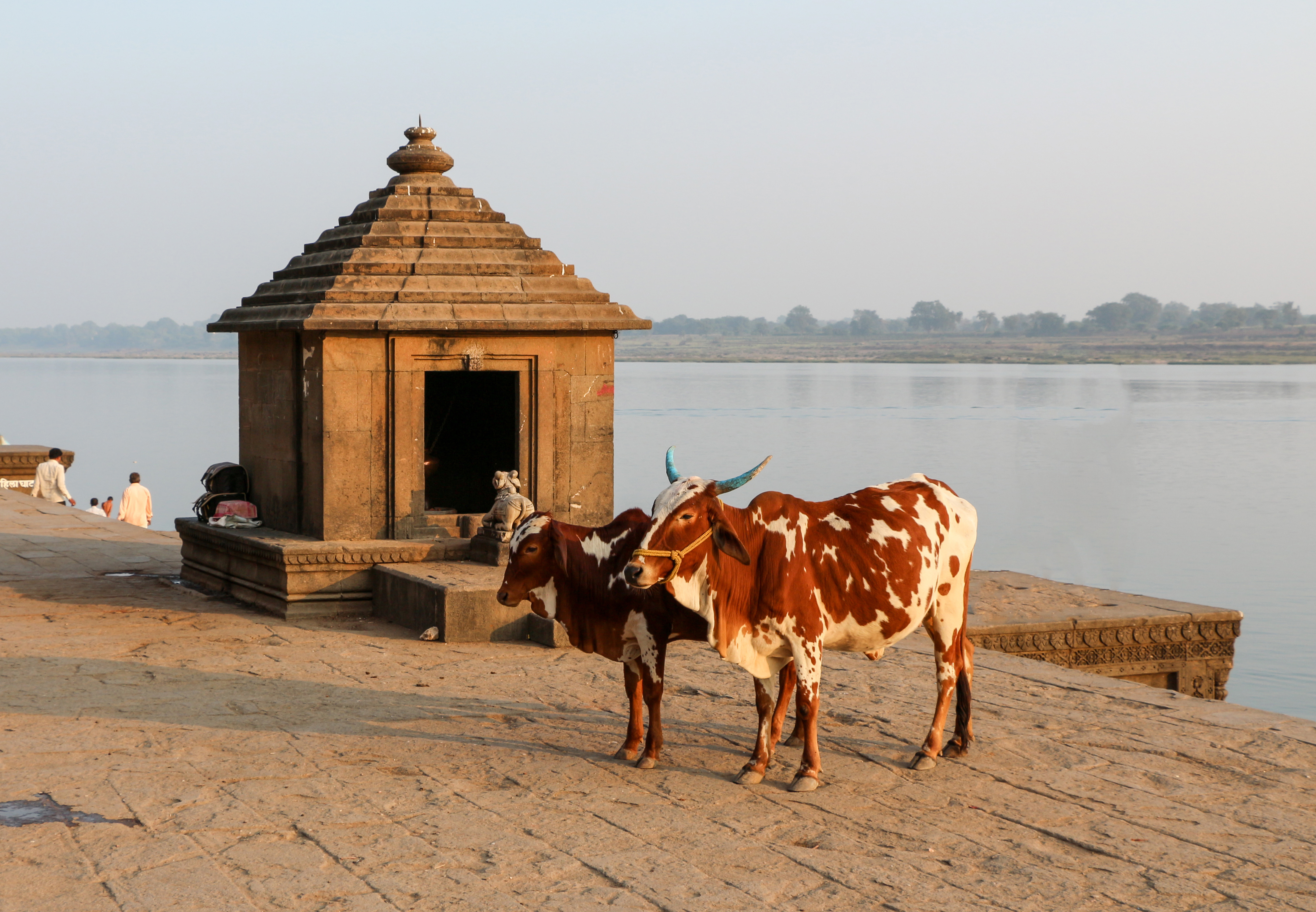 Small temple and sacred cows on the ghats of Maheshwar on the shore of Narmada River, India